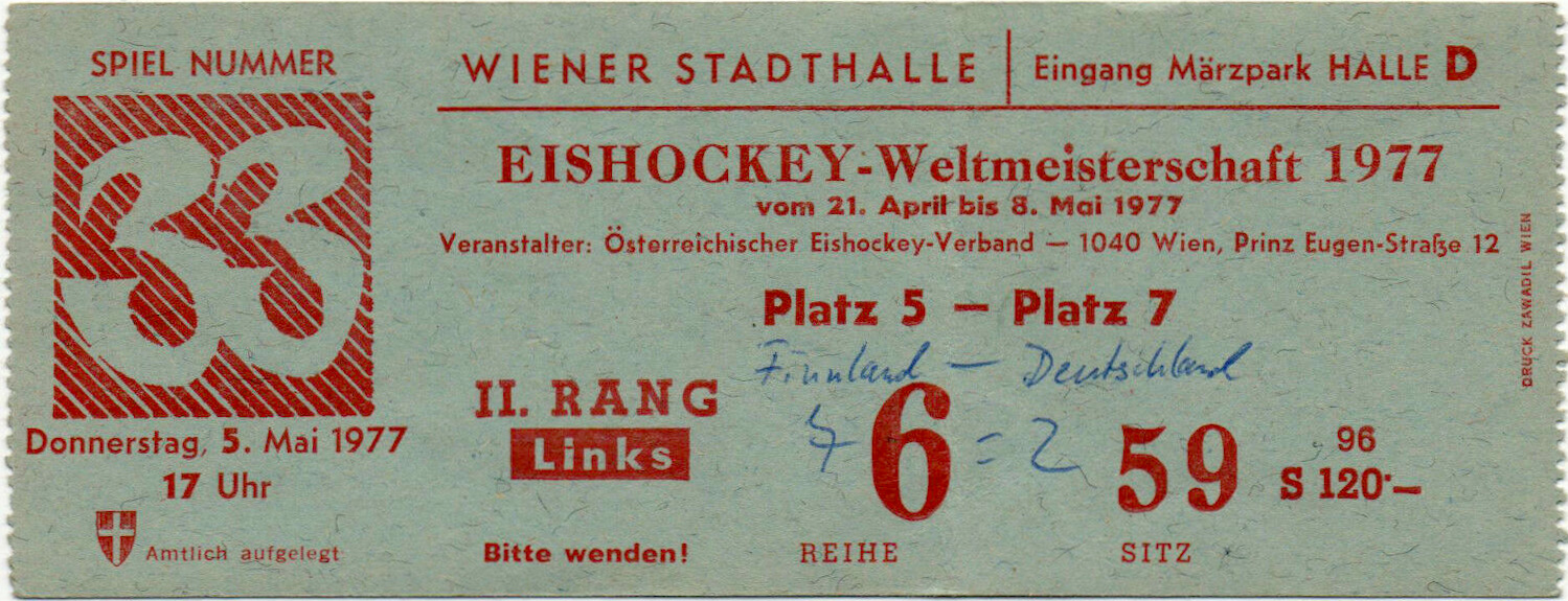 1977 IIHF World Championship Ticket, Game No. 33, 5th May 1977, 17:00 pm